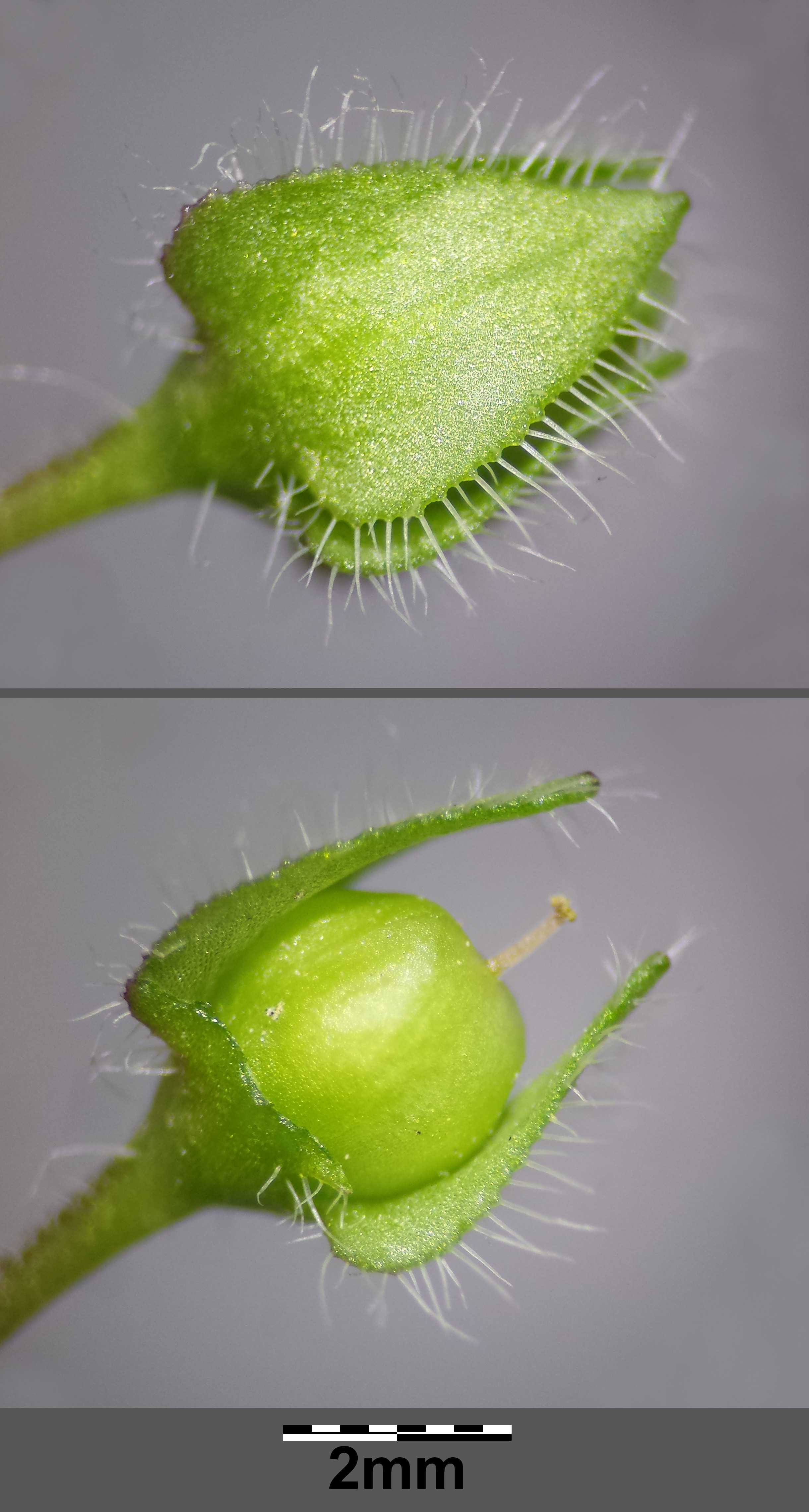 Fruit, below sepals partly removed Taxonym: Veronica hederifolia s. str. ss Fischer et al. EfÖLS 2008 ISBN 978-3-85474-187-9 Location: Sinawastingasse, Vienna-Floridsdorf - ca. 160 m a.s.l. Habitat: slope